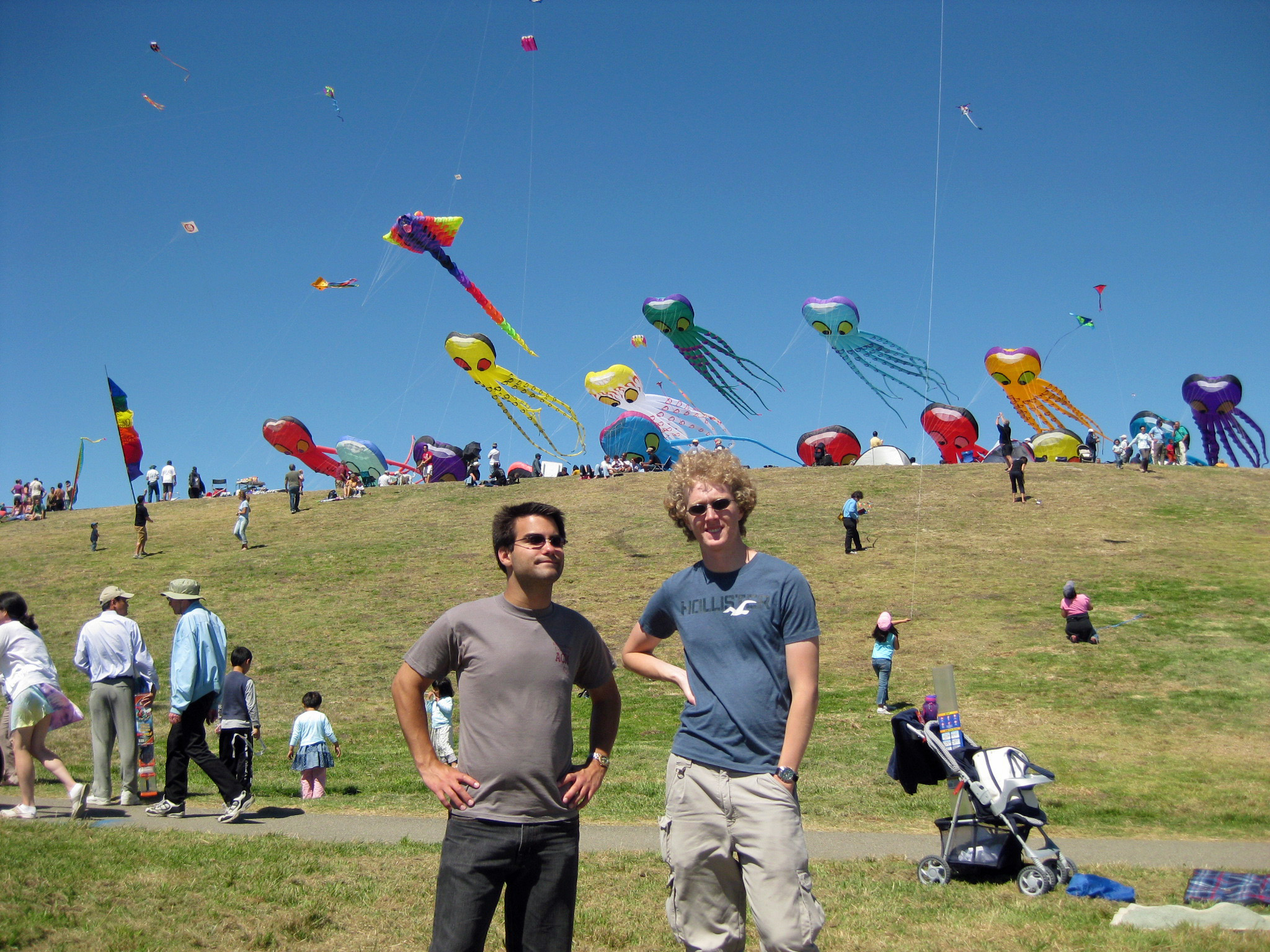 Picture from Johannes Liem